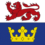 Flag of Amden, Canton of St. GallenEsperanto: Flago de Amden, Kantono de Sankt-Galo